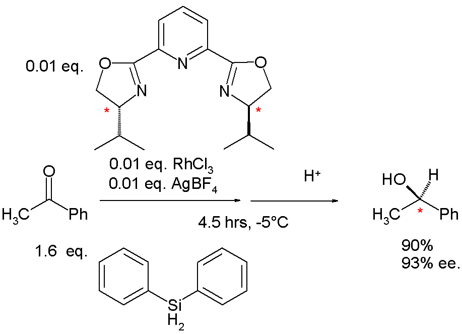 Bisoxazoline NishiYama